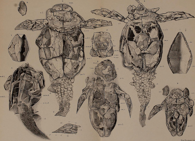 Sketches of found Asterolepis fossils